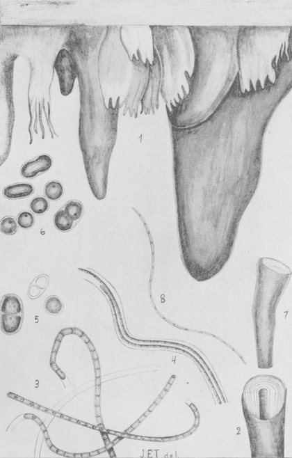 Josephine Tilden 1897 diagram of Algal Stalactitites at Yellowstone Park